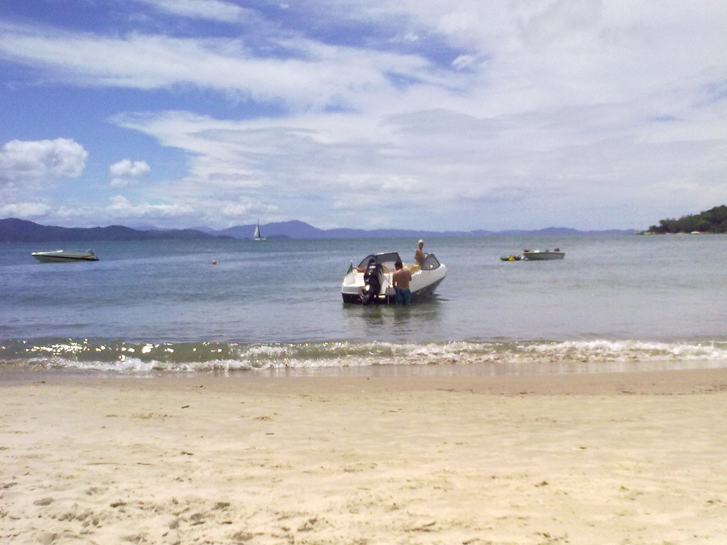 Canajurê Beach